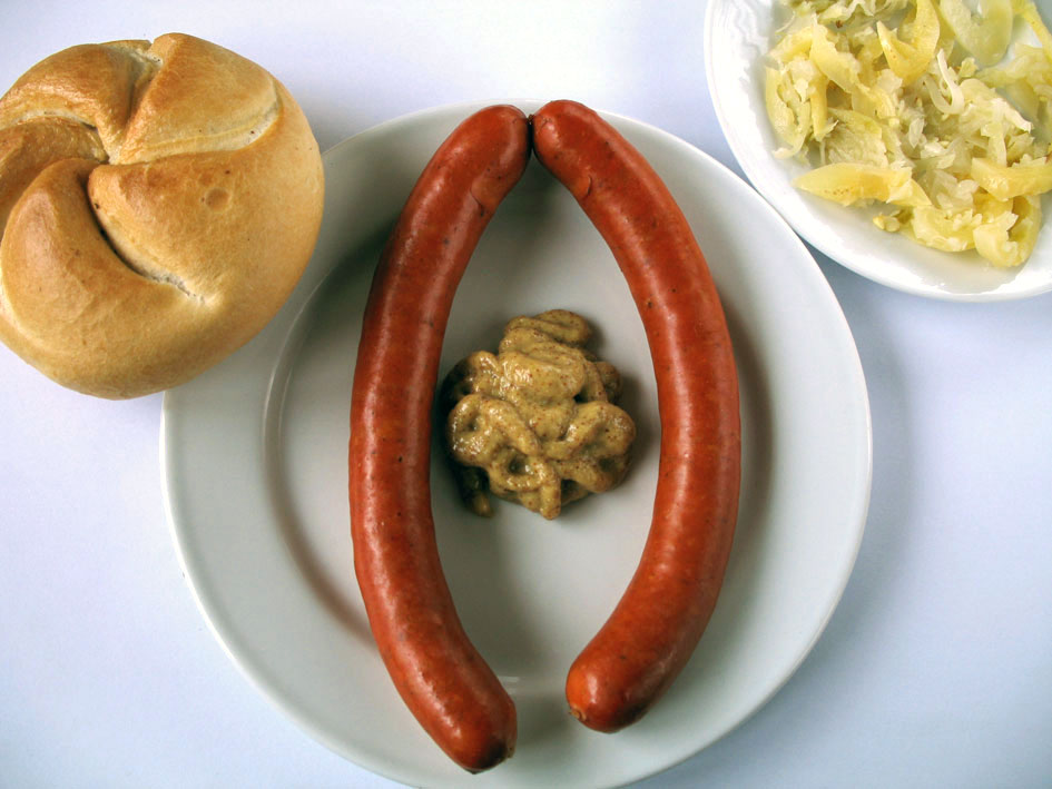 Description = Debrecziner, Wurstspezialität aus Debrecen (Ungarn) Source = photo taken by Kobako Date = Dec. 2005 Author = Kobako